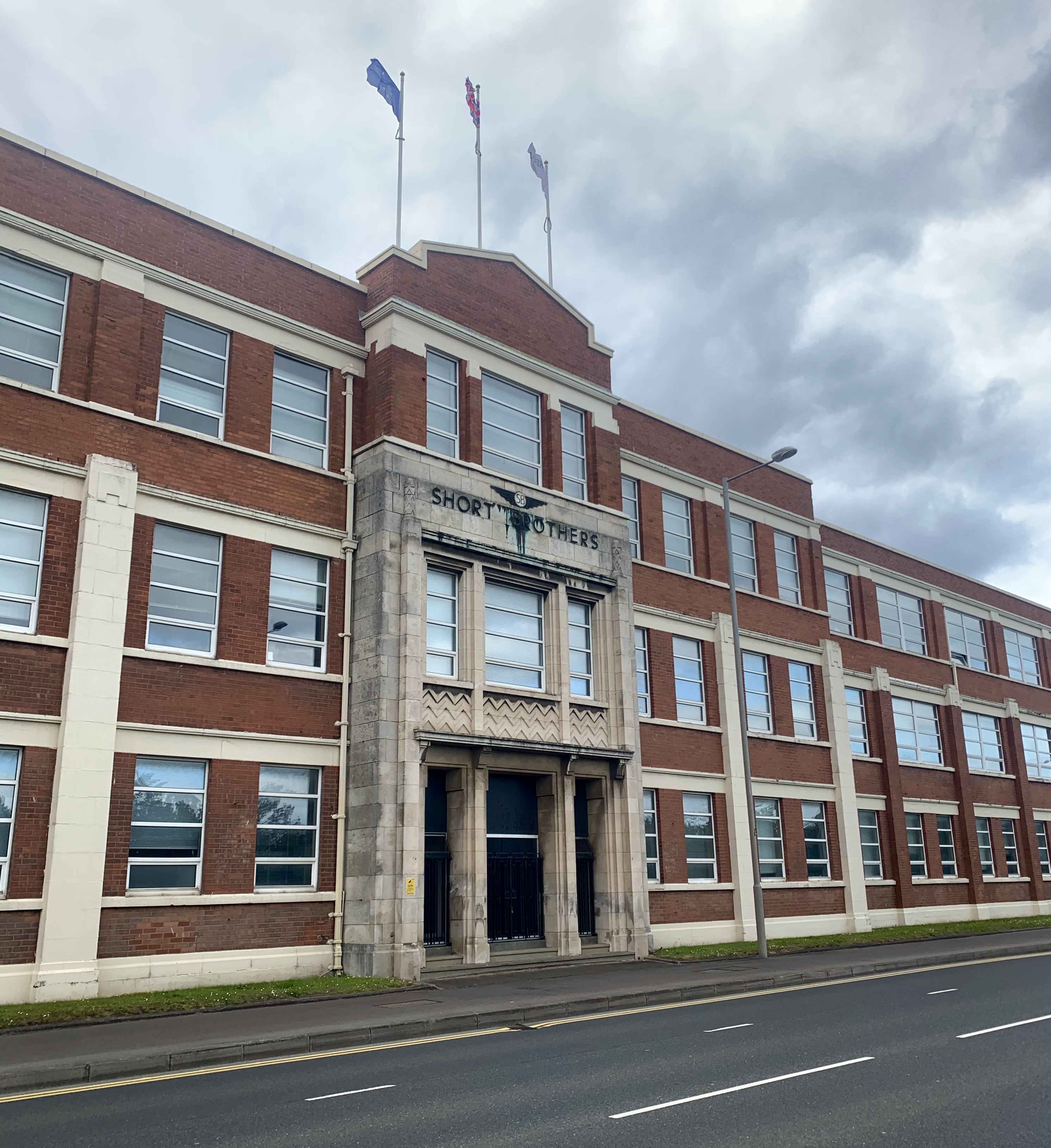 Former Short Brothers HQ, Airport Road, Belfast. Constructed in 1941 as the headquarters for the Belfast Branch of Short Brothers, aircraft manufacturing business, it was originally a two-storey structure and was raised to three-storey in 1945 when a further two-storey block was erected